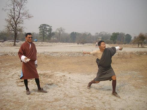 Session of Deogor, a Bhutanese game